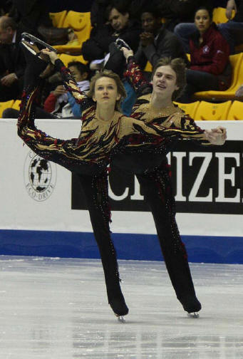 Ksenia KRASILNIKOVA and Konstantin BEZMATERNIKH(rus). Grand Prix Final 2008 – Juniors - Pairs